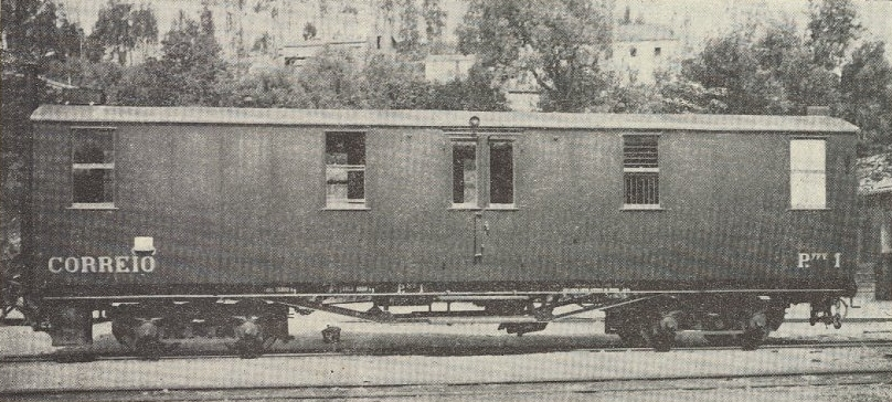 Travelling post office of the Vouga railway network, in Portugal. Was originally german, and came to Portugal as part of the World War I reparations. This image was published on the Gazeta dos Caminhos de Ferro magazine no. 1363, of the 1st October 1944, and scanned by the Hemeroteca Municipal de Lisboa.